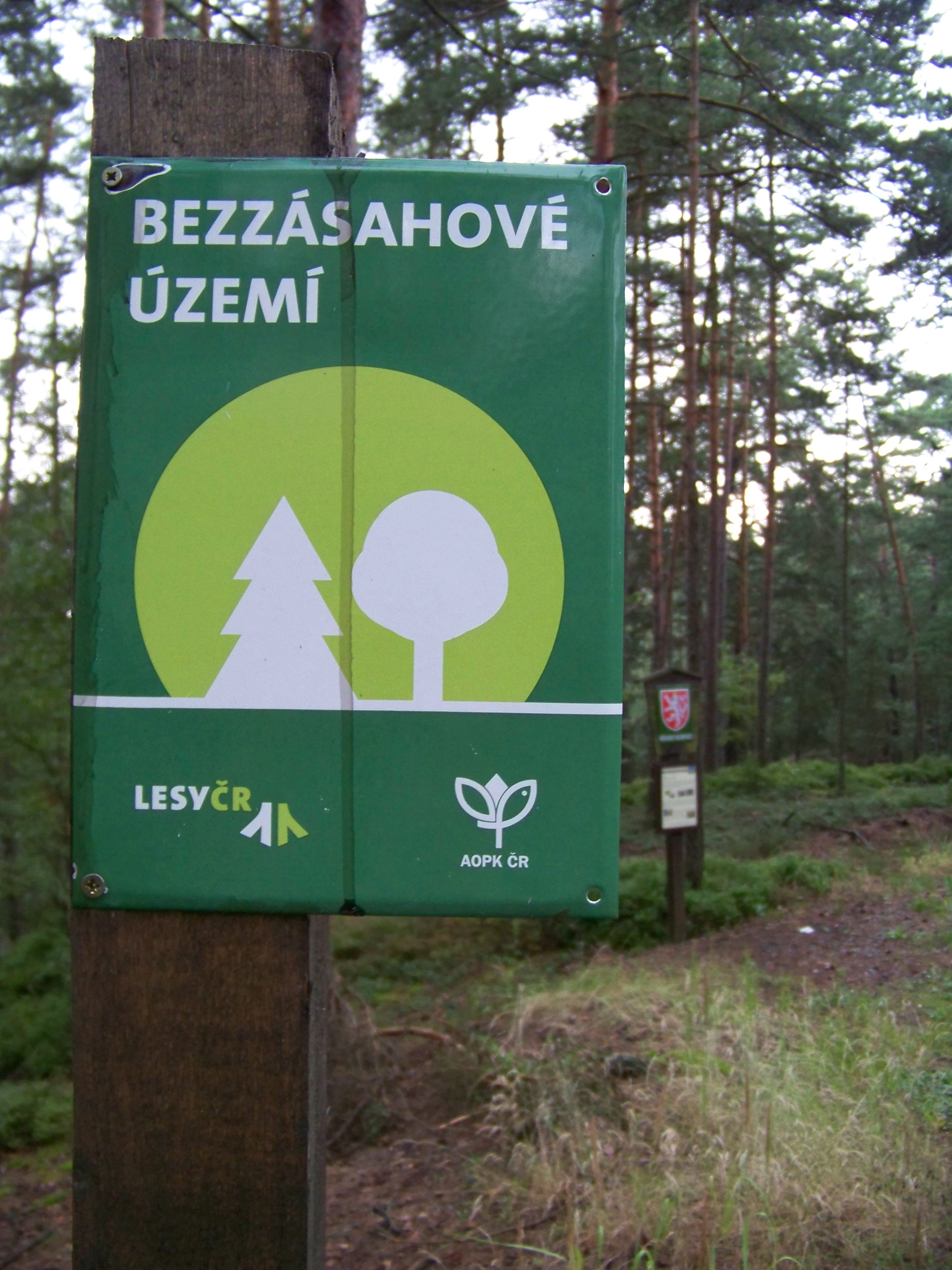 A sign of area without forestry interventions. Protected Landscape Area of Kokořínsko. (Cadastral area of Tuhanec, Česká Lípa District, Liberec Region, the Czech Republic.) - Google Maps - Google Earth